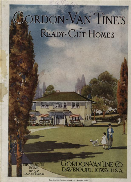 Gordon-Van Tine Homes company sold house kits, first, as "standard cut" homes, and then branched out to what they referred to as "ready-cut" homes. This is the cover of the 1916 catalog, which shows the term "Ready-Cut Homes".